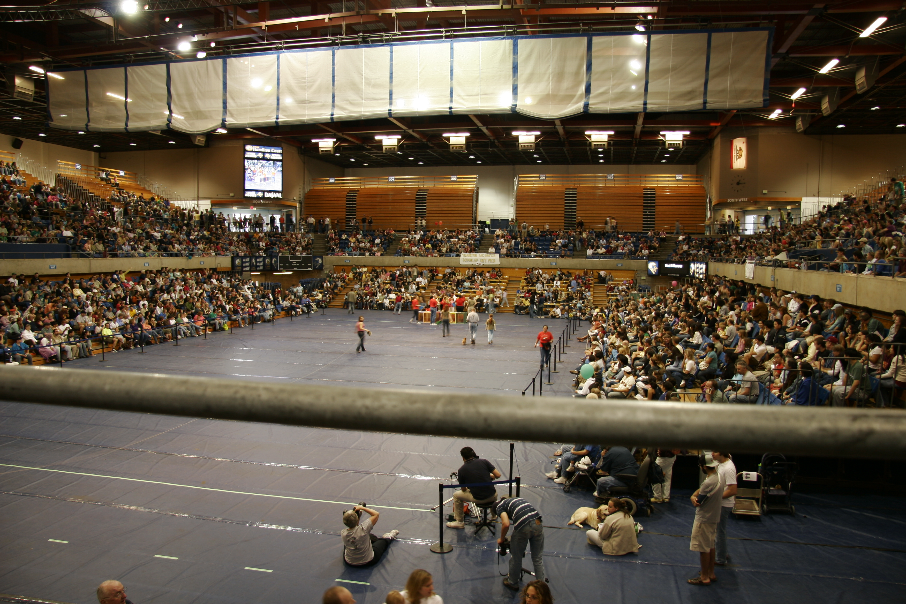 UC Davis Pavilion during "Doxie Derby" Dachshund race, annual Picnic Day fund-raiser for the School of Veterinary Medicine.